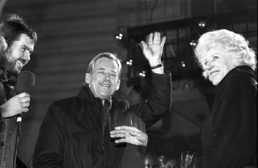 Olga Havlová